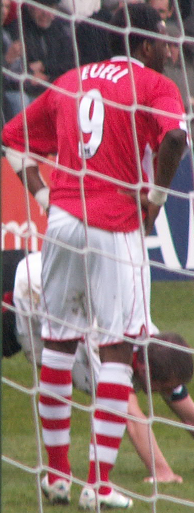 Jason Euell. Image cropped from original at flickr.